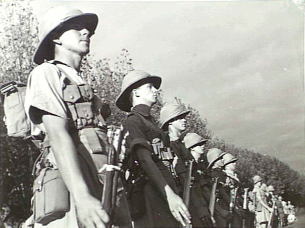 5th Battalion, Victorian Scottish Regiment, an Australian Army militia unit, on parade April 1940. In early 1940 the unit was called up for a three month period of continuous training as part of the nation's mobilisation during World War II. The battalion would later serve as garrison troops in Western Australia and the Northern Territory, whilst many of its members would volunteer for overseas service with the AIF.